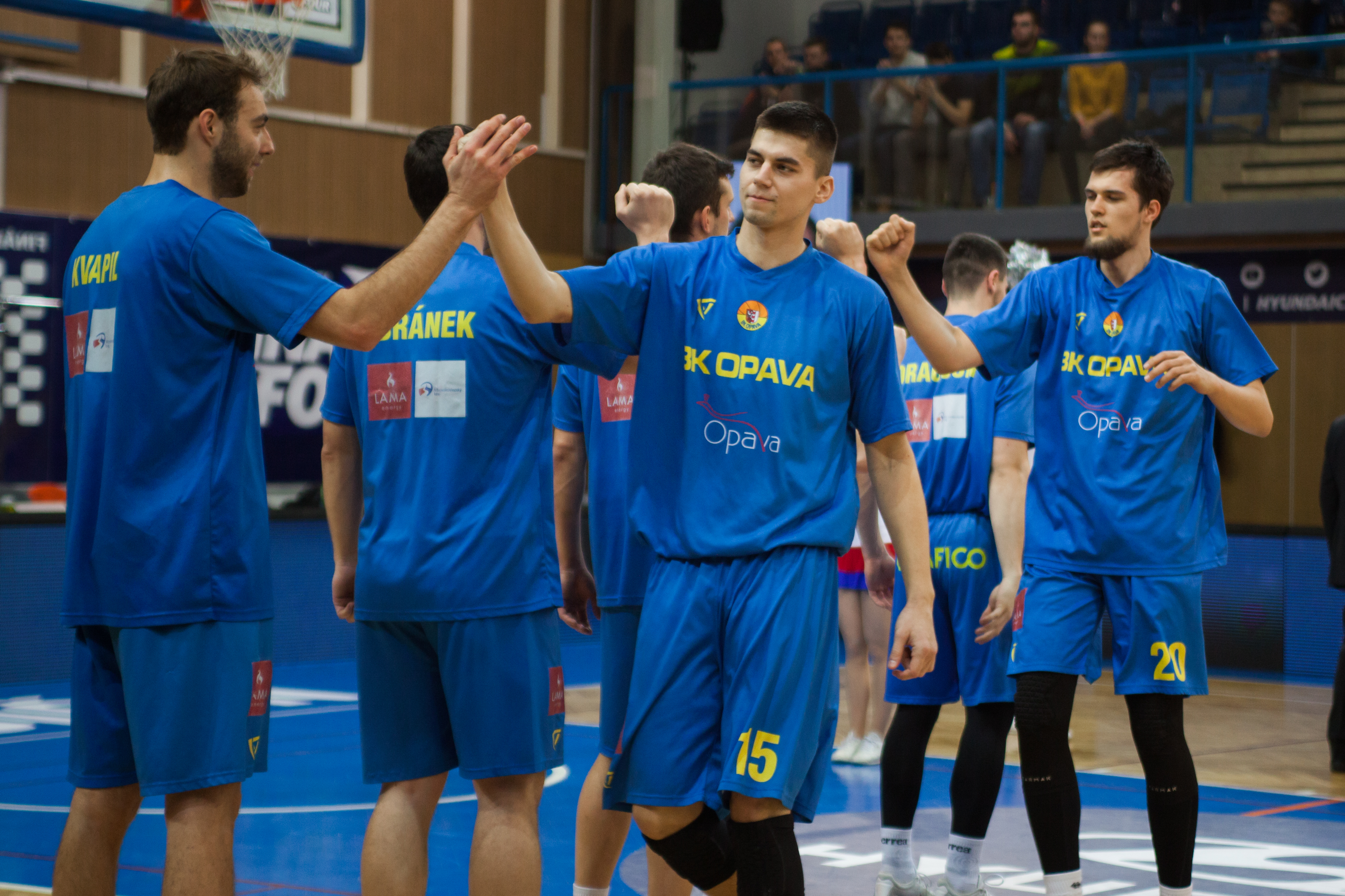 Final match of Czech basketball cup Hyundai Final4 between clubs BK Opava-ČEZ Basketball Nymburk (Nový Jičín, 10 February 2019)